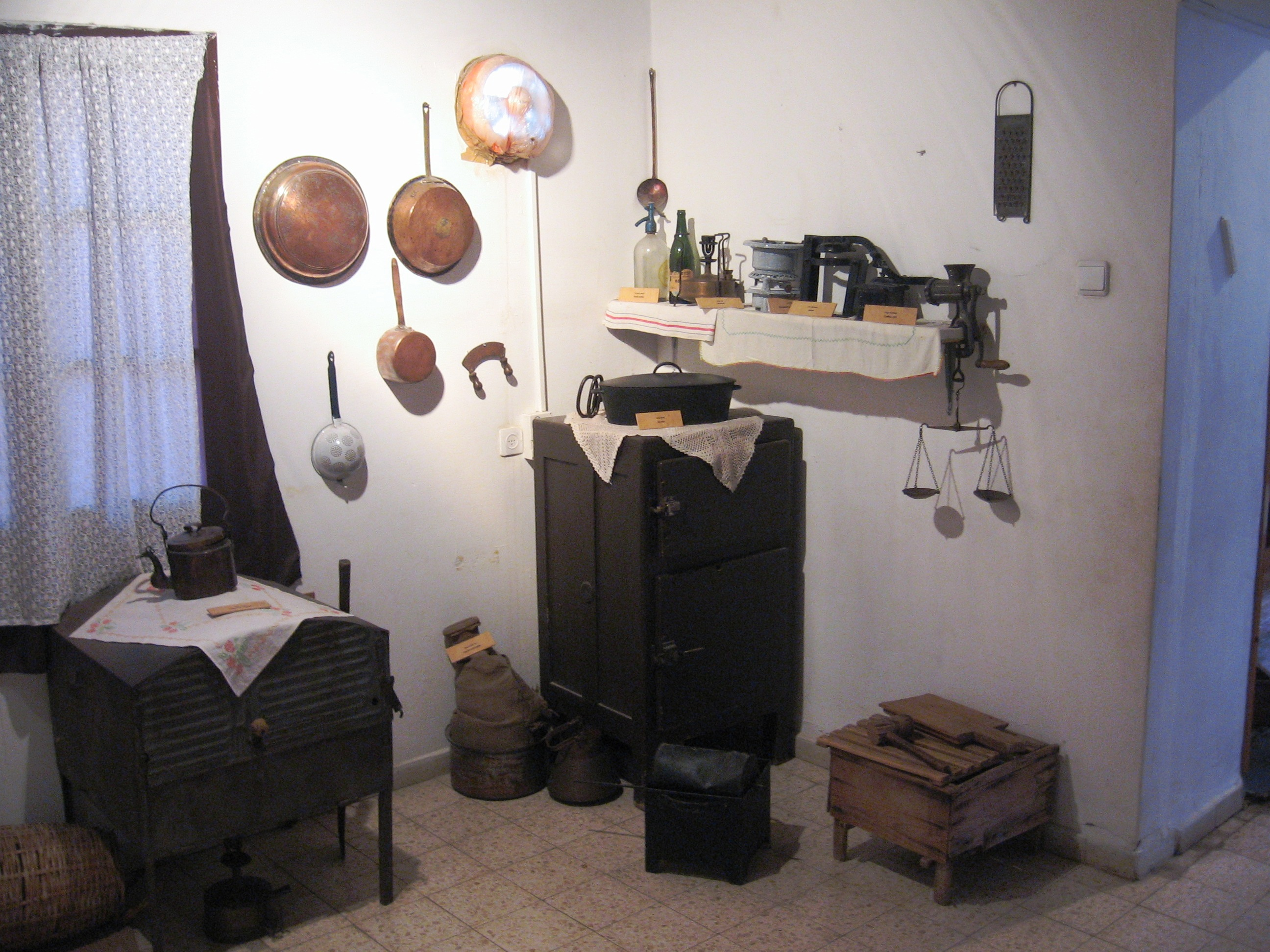 the museon